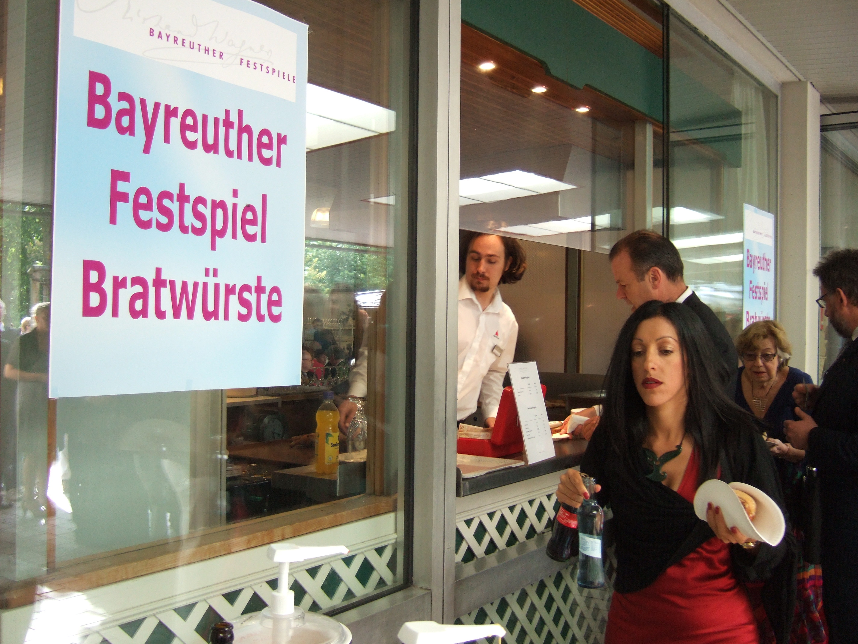 Sausage Stand at the Bayreuther Festspiele (2011)